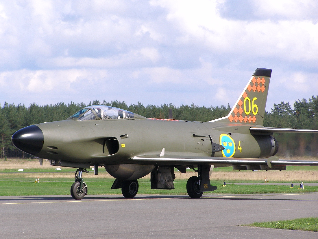 A Saab J 32D Lansen at Kristianstad Airshow 2006.